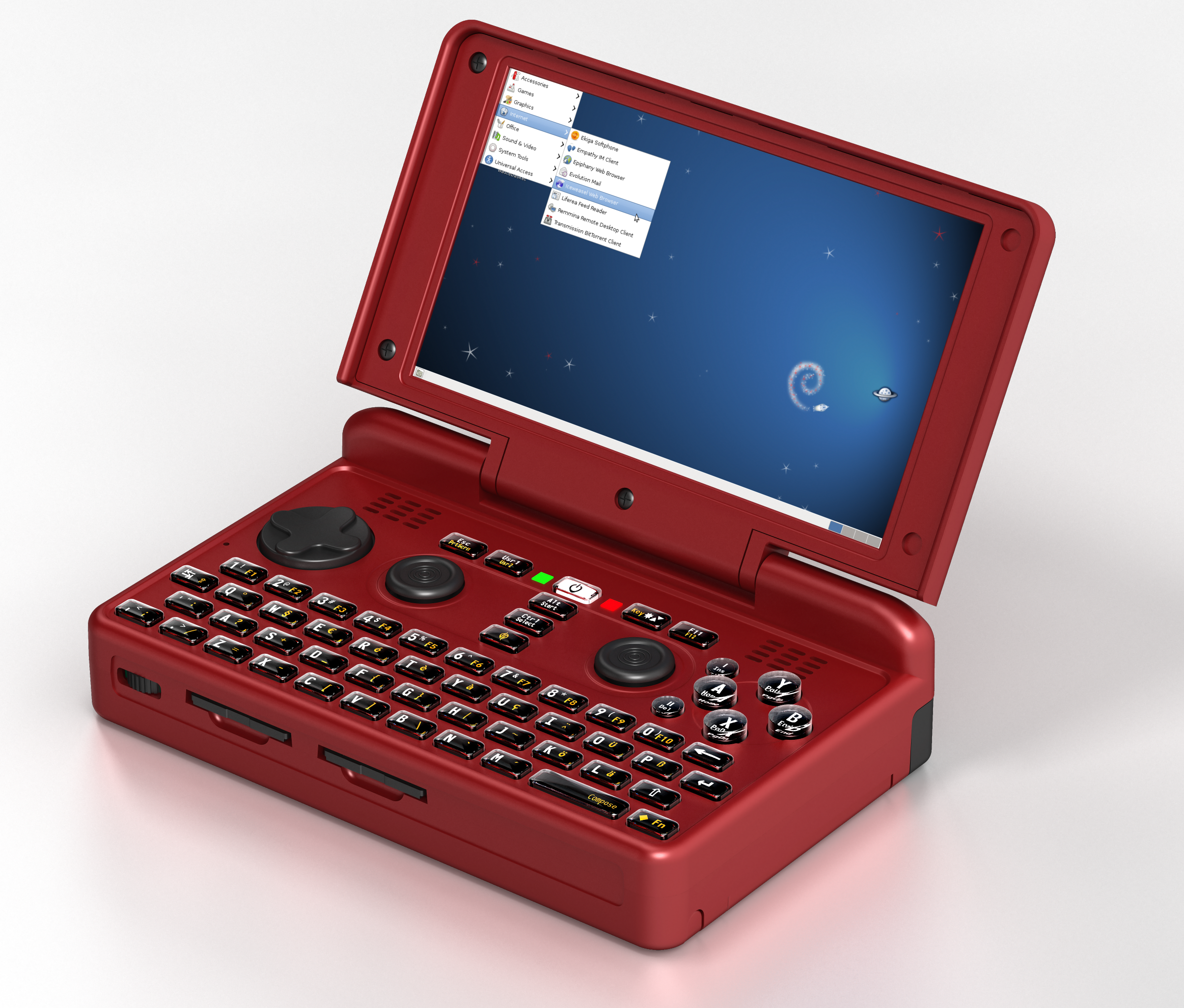 Pyra-Render-frontside-new